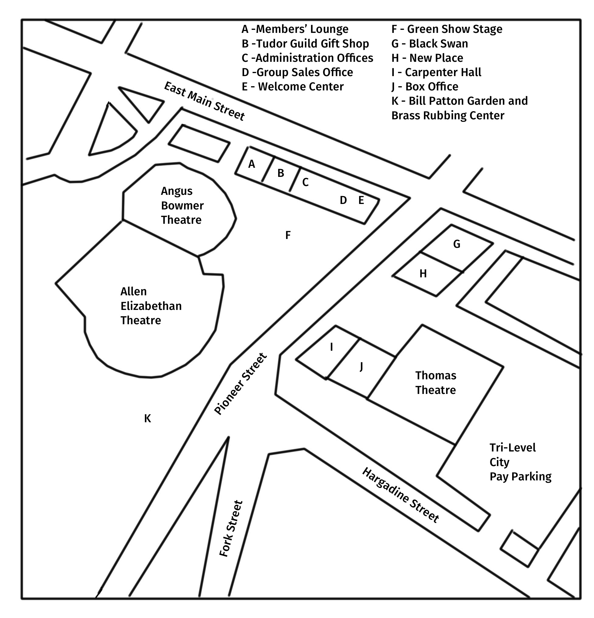 A simple map of the Oregon Shakespeare festival